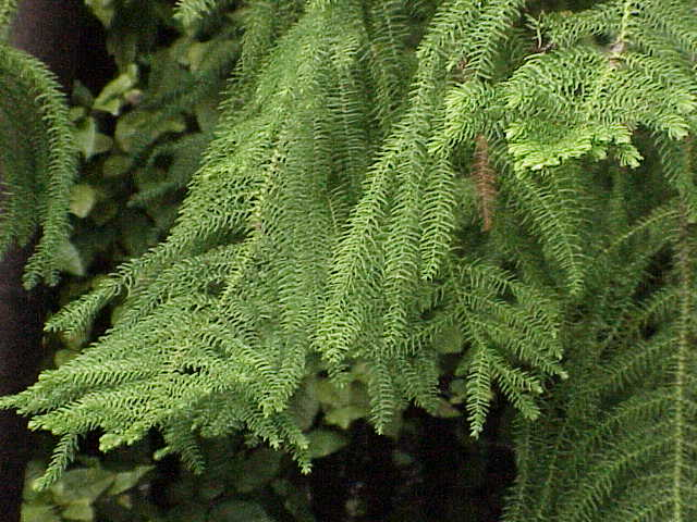 Species: Unidentified Araucaria sp. (probably A. columnaris, not A. heterophylla) Family: Araucariaceae Image No. 1